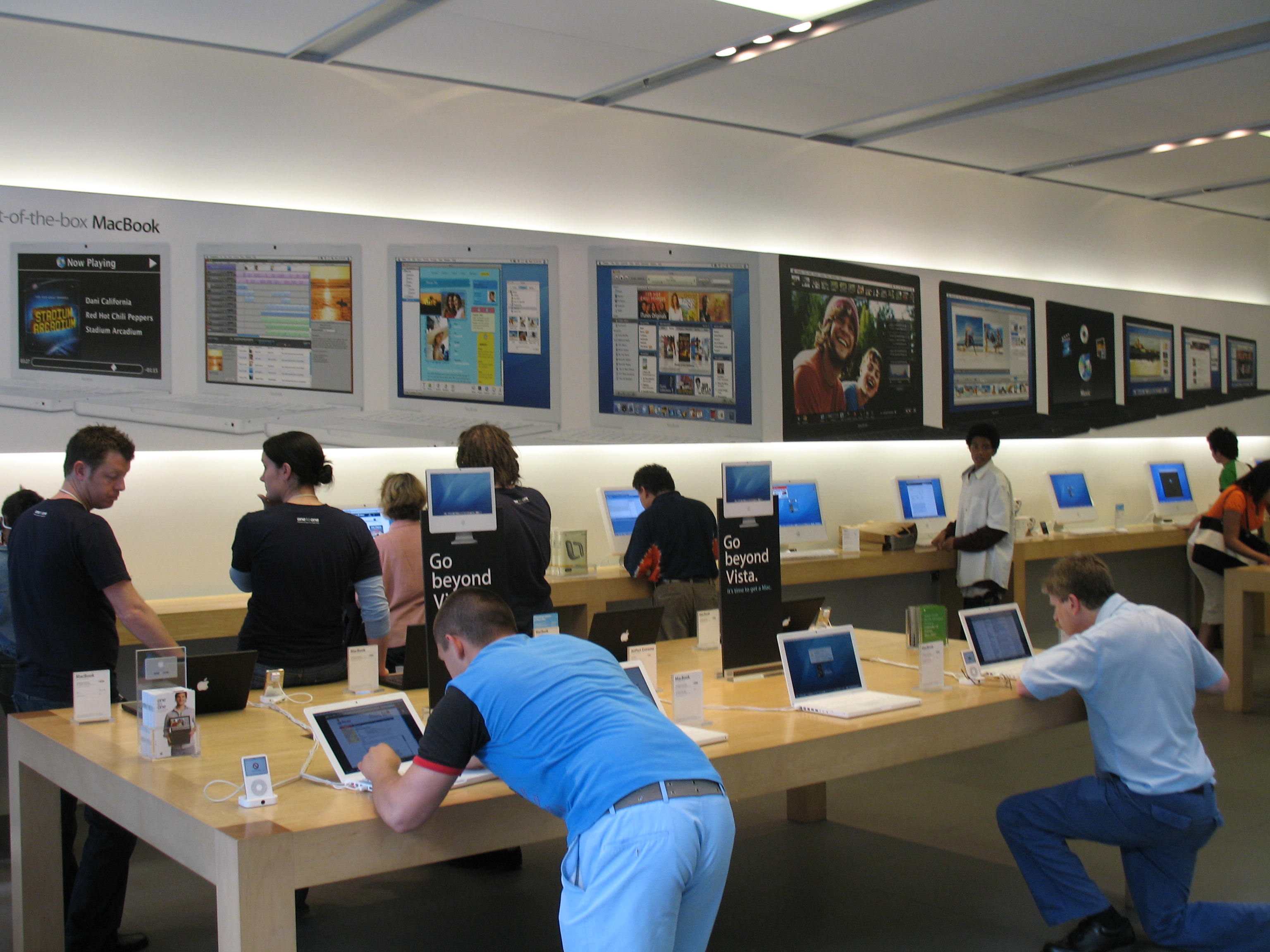 Apple Computer — Apple Store, Michigan Avenue (Chicago)